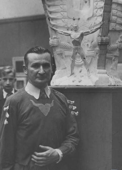 Stanisław Szukalski in Kraków 1936.